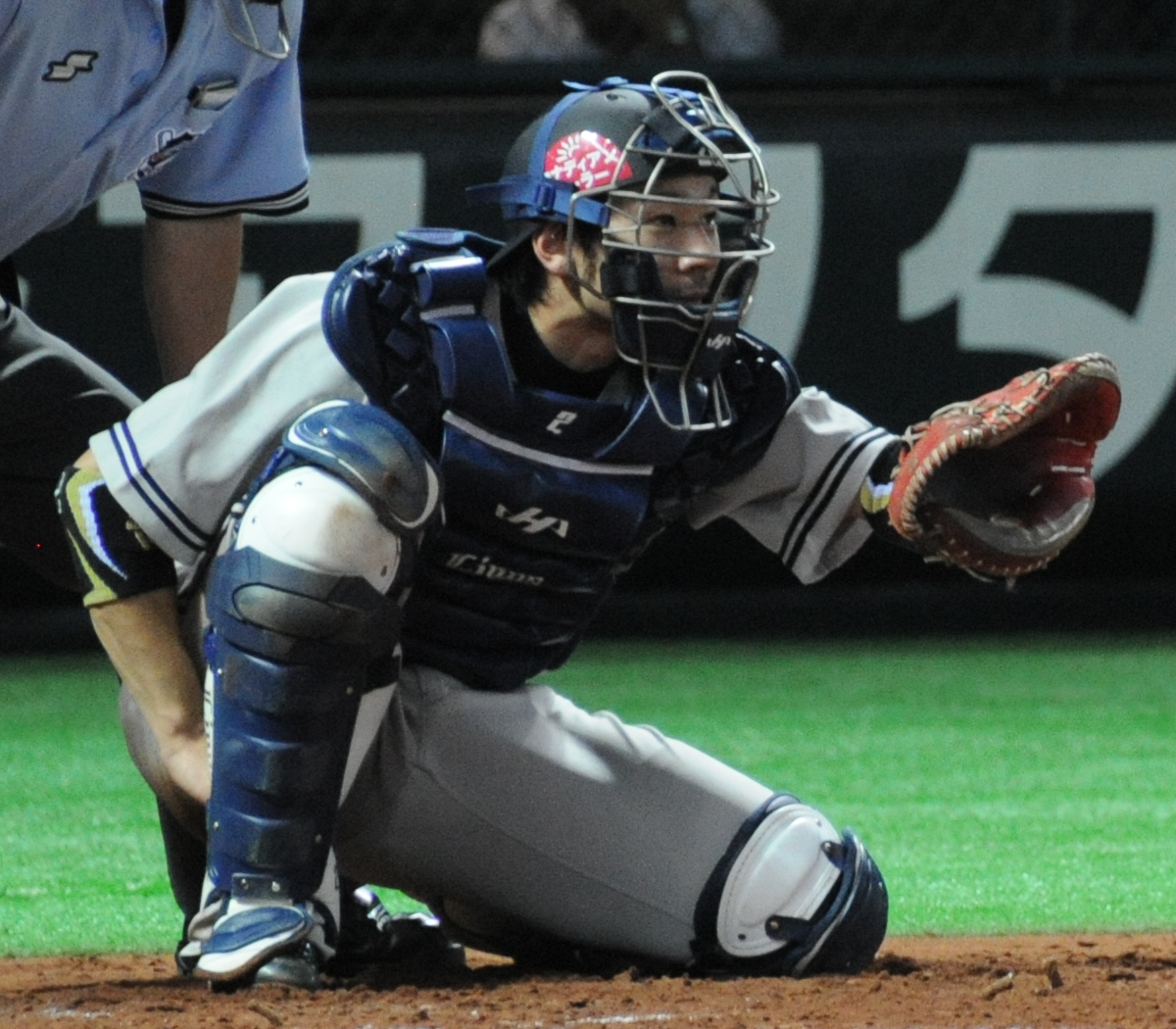 Ginjiro Sumitani, catcher of the Saitama Seibu Lions, at Fukuoka Dome.